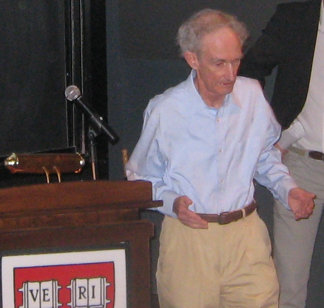 Bob May giving a public lecture at Harvard